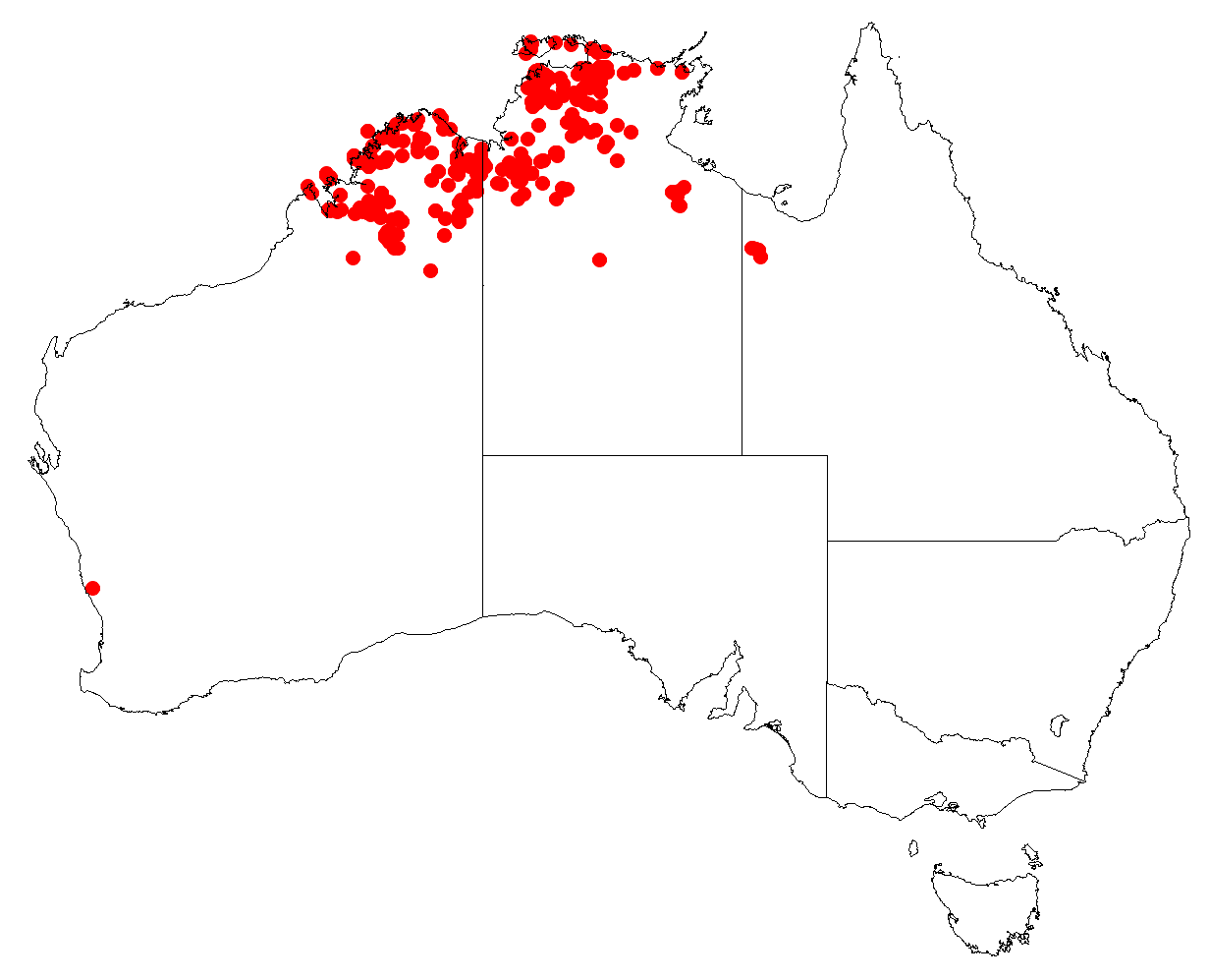 Cochlospermum fraseri occurrence records downloaded from Australasian Virtual Herbarium, on 29 May 2018